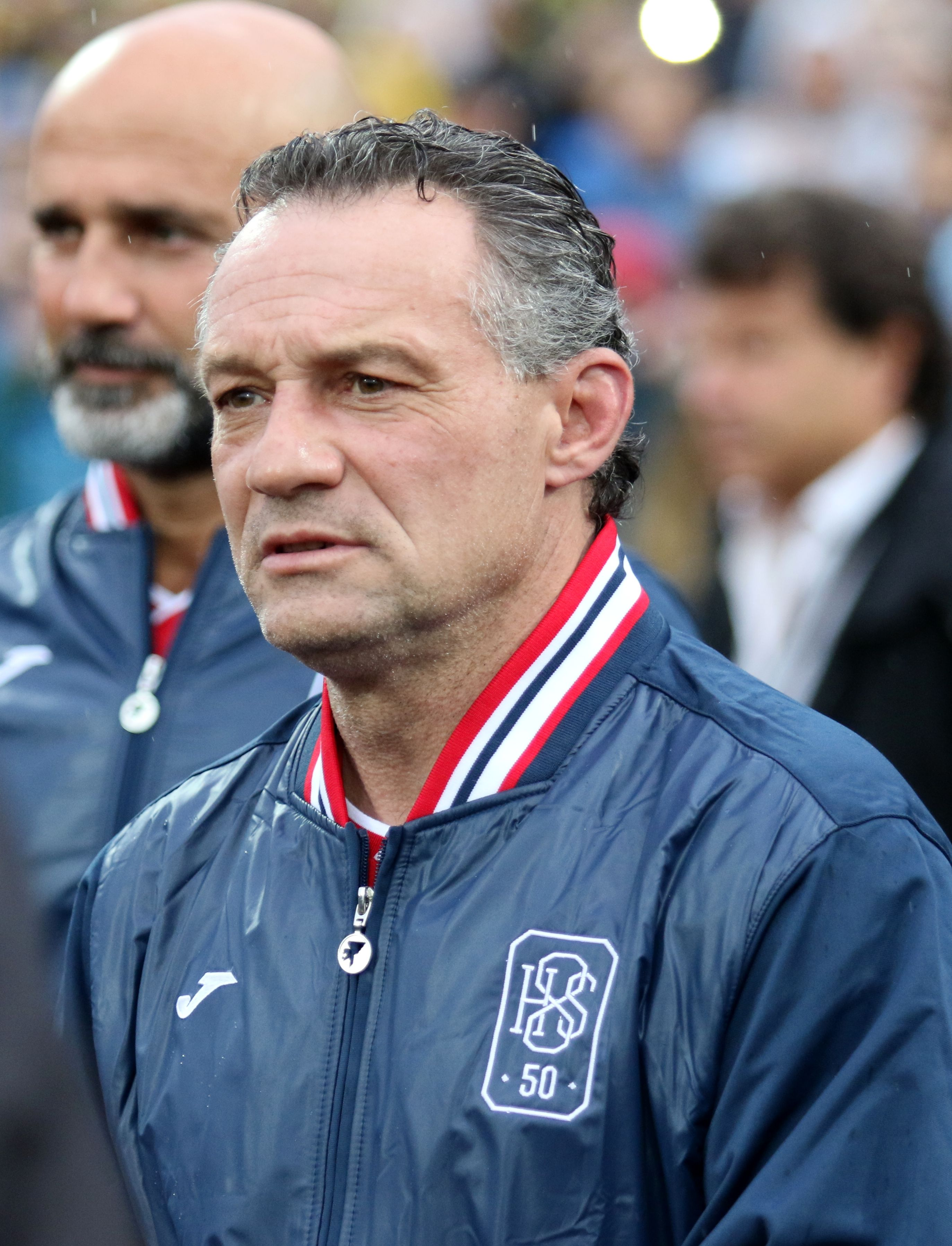 Piotr Nowak (Polish pronunciation: [ˈpjɔtr ˈnɔvak]; born 5 July 1964 in Pabianice) is a Polish former professional football player. Nowak was most recently the sporting director of Ekstraklasa side Lechia Gdańsk.